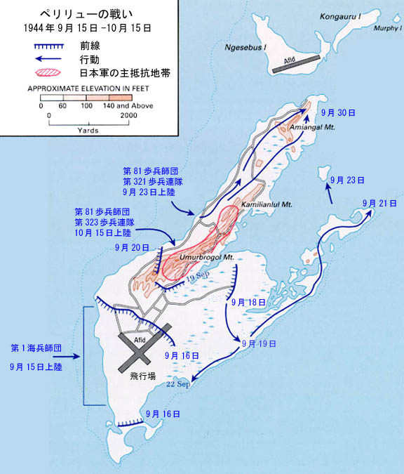 Battle of Peleliu